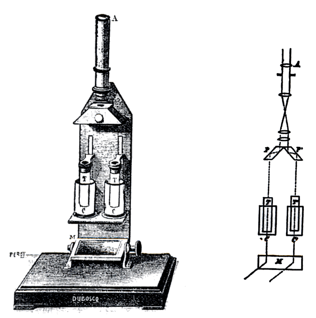 A drawing and diagram of a Duboscq colorimeter, for visually obtaining a color match between two columns of fluid to arrive at a quantitative concentration ratio.